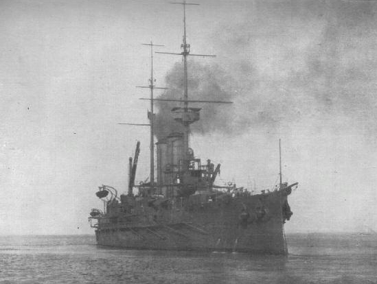 USS Zrinyi (formerly Austro-Hungarian SMS Zrínyi)